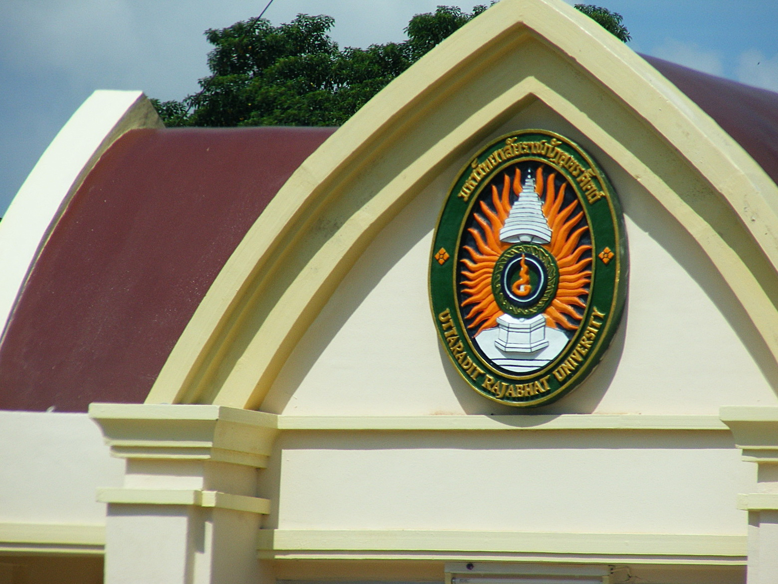 Uttaradit Rajabhat University Location: Uttaradit Rajabhat University Mueang Uttaradit, Uttaradit Province, Thailand.